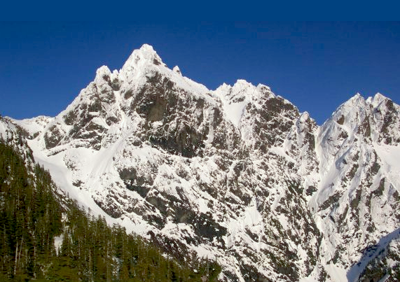 Rugged Mountain, NW aspect. Photo taken on approach from the west. The col to the left of the peak is Nathan Creek Col.